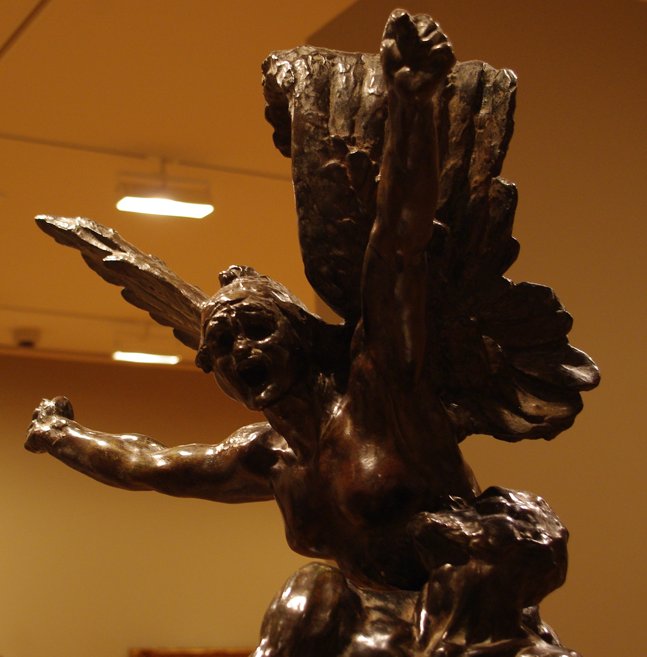 La Défense by Auguste Rodin on display at the Portland Art Museum in Oregon.